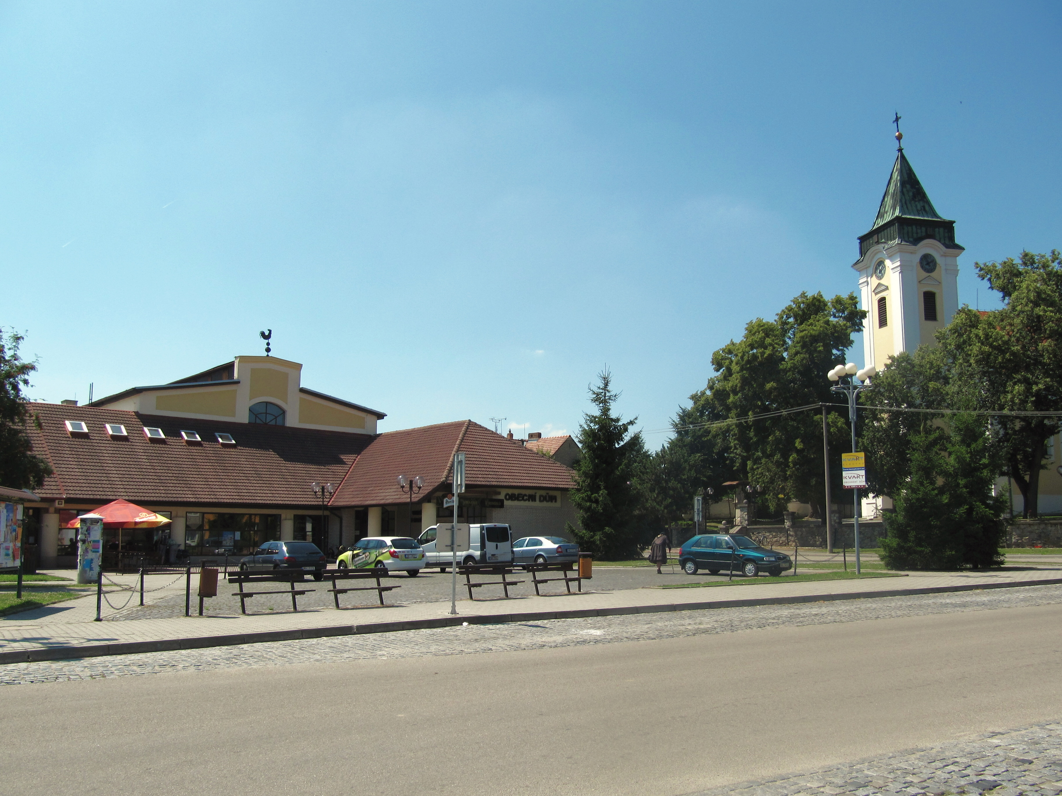 Dolní Bojanovice in Hodonín District, Czech Republic. Square and church of St. Wenceslas from 1734.